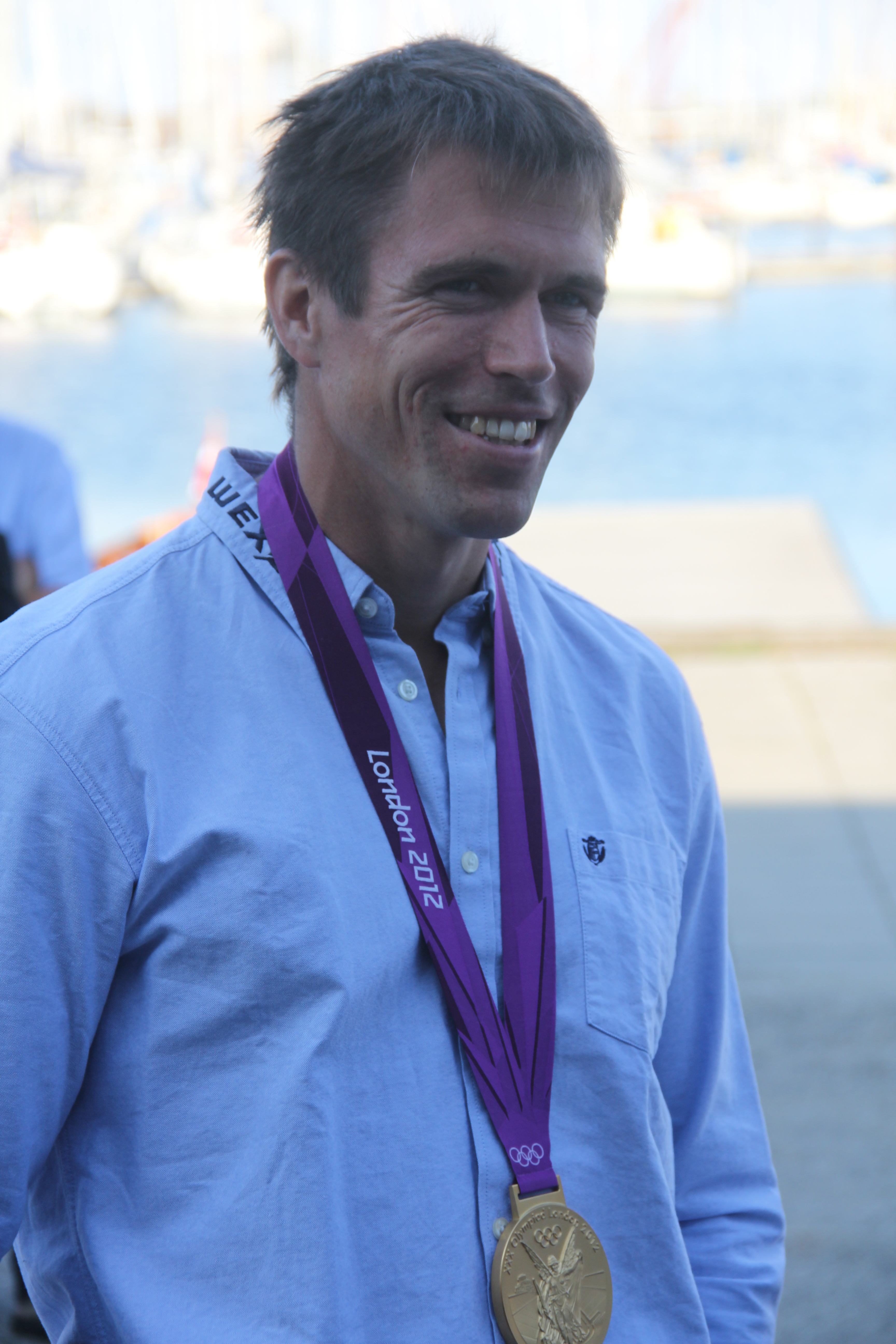 Mads Rasmussen, DSR. with gold medal from London 2012 Summer Olympics